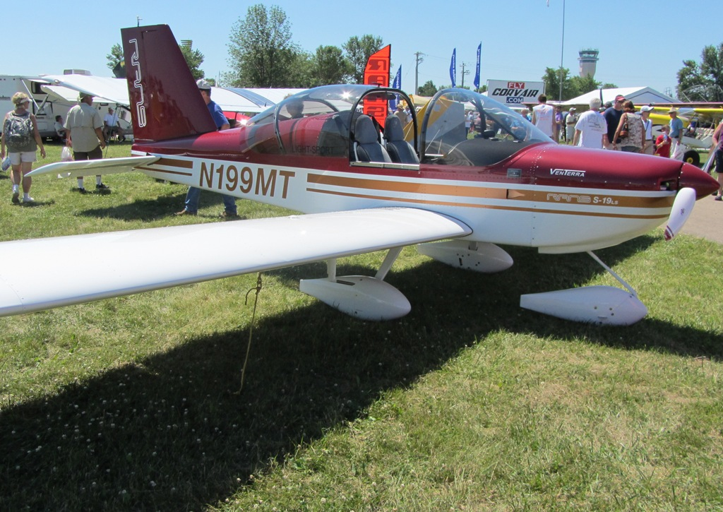 RANS S19ls